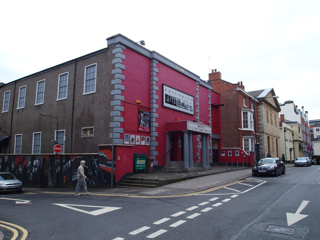 Nottingham - NG1. Dominating this location at the Old Lenton Street/George Street junction is the Arts Theatre that is operated by volunteers through a charity, The Co-Operative Arts Theatre Trust.